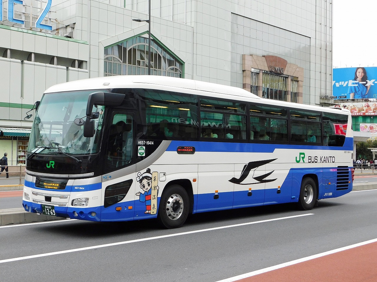 JR bus Kanto (Naganohara branch) Hino S'elega(QRG-RU1ESBA)Highwaybus "josyu Yumeguri-go"(Shinjuku- Kusatsu onsen)